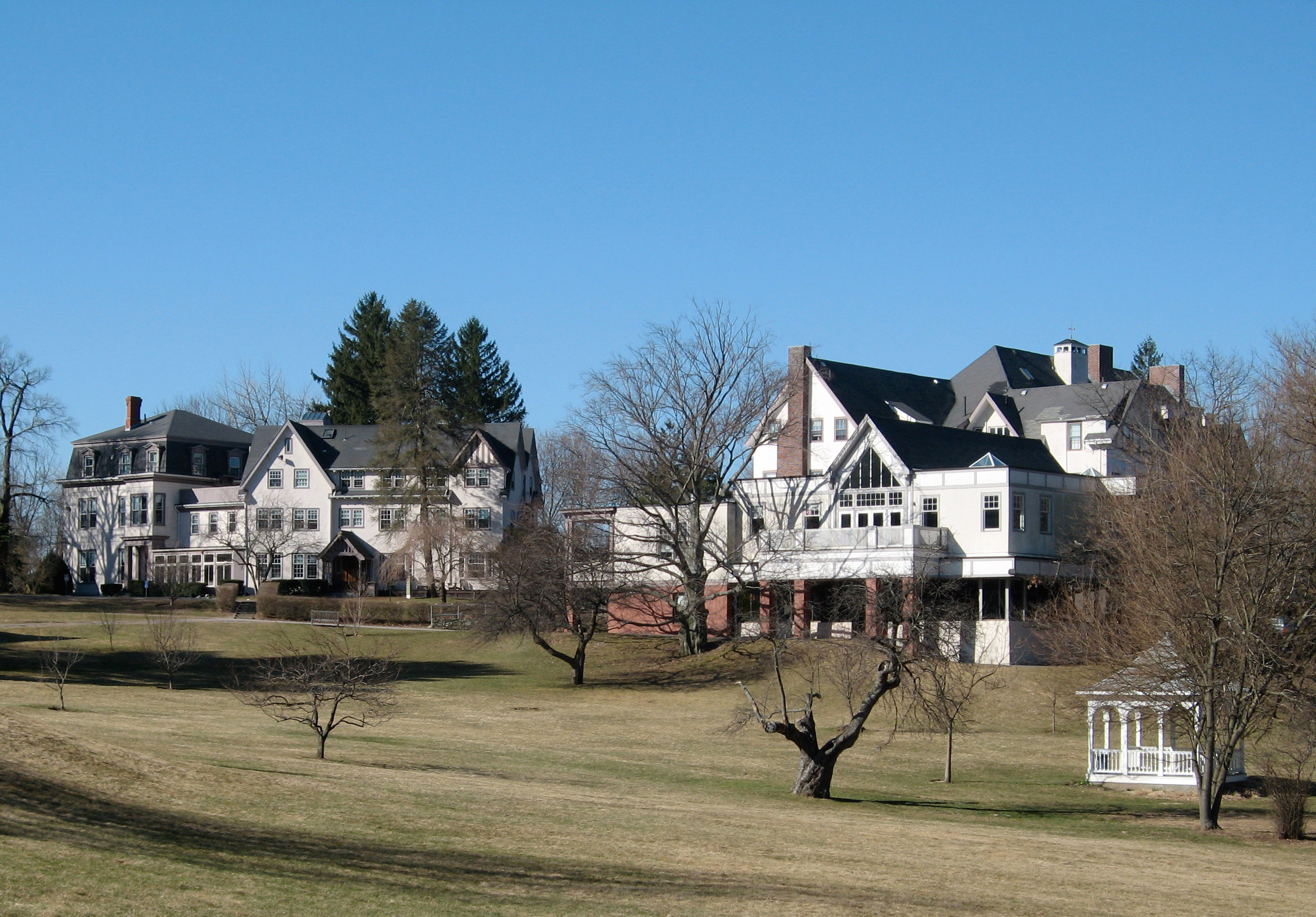 Description: Photograph of Walnut Hill School. View of Campus Center and Stowe. Source: Photograph taken by Jared C. Benedict on 29 March 2006. Copyright: © Jared C. Benedict.